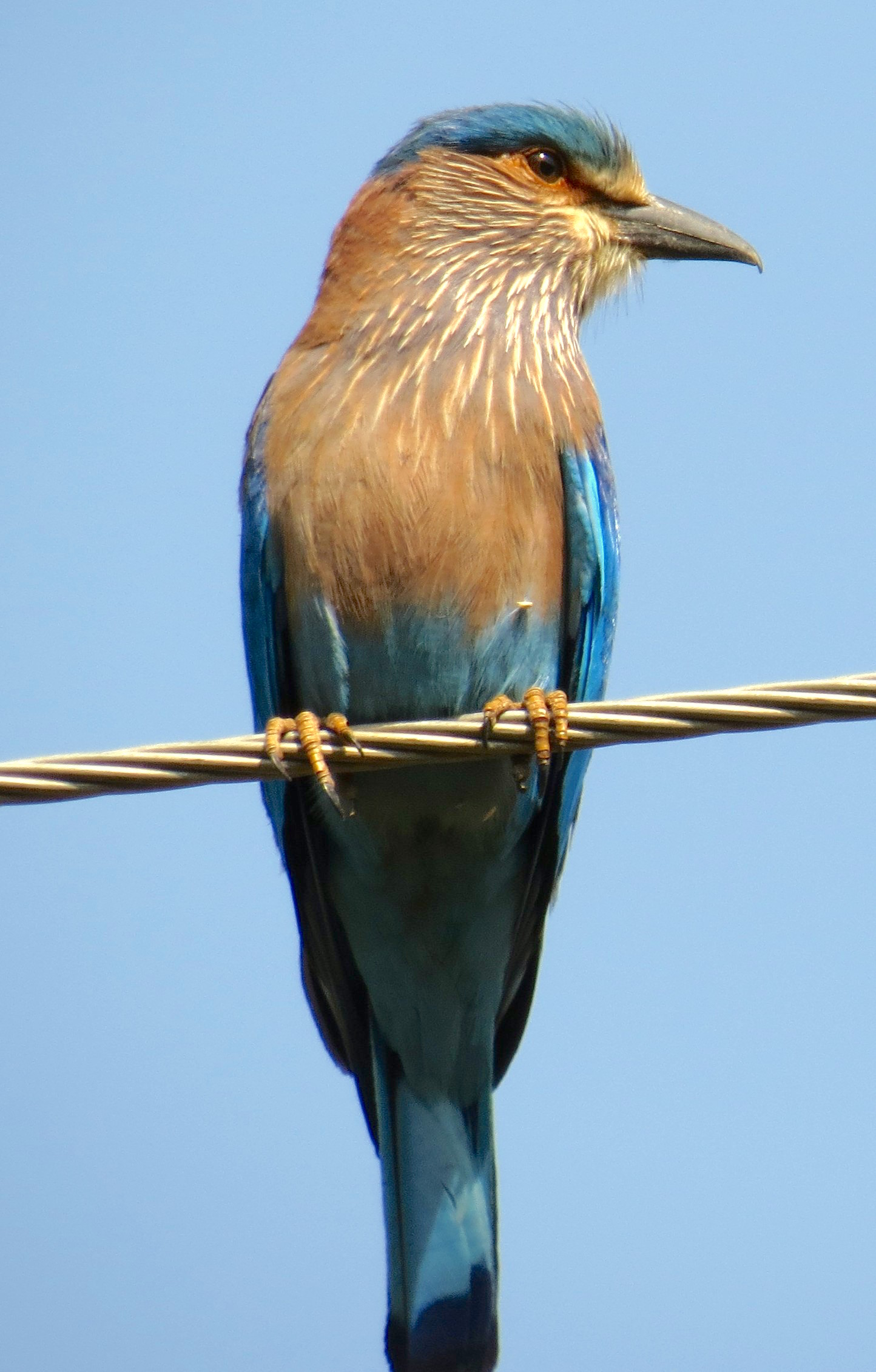 The Indian Roller taken with Canon SX 40 HS, with auto mode with no flash, from Attappadi, Palakkad District, Kerala State, India